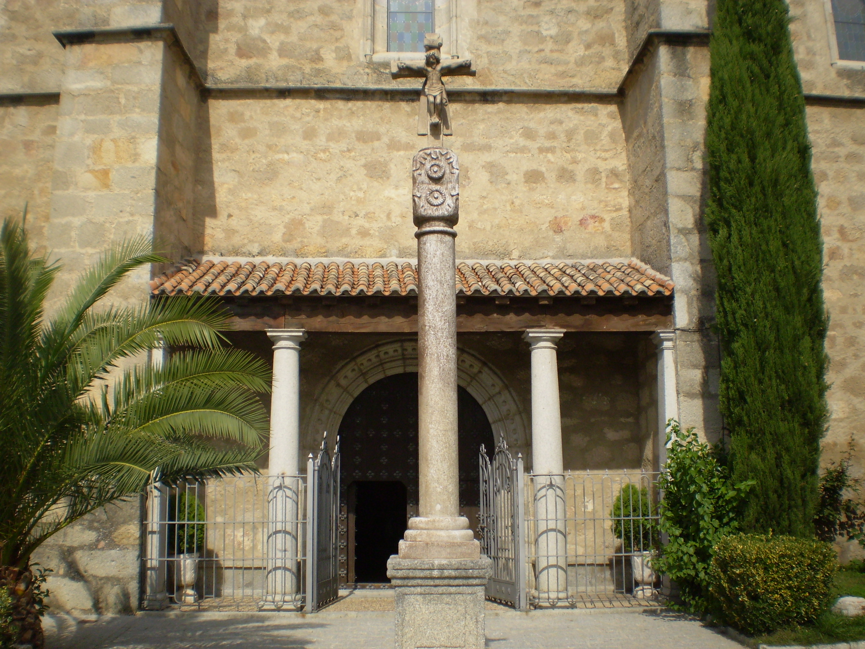 Church of Navalagamella. Community of Madrid, Spain